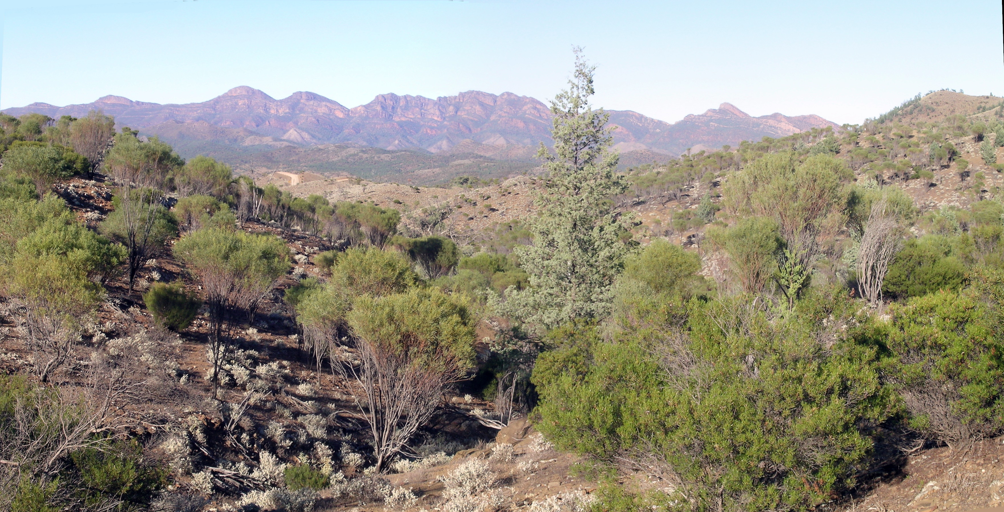 Flinders Ranges National Park, South Australia.